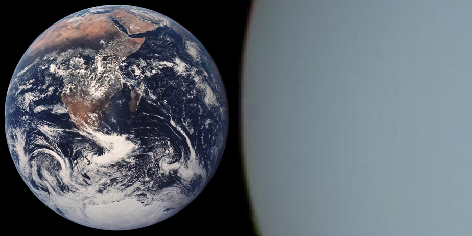 Uranus Earth comparison at the same scale (about 29 km/px) as the other images in the series